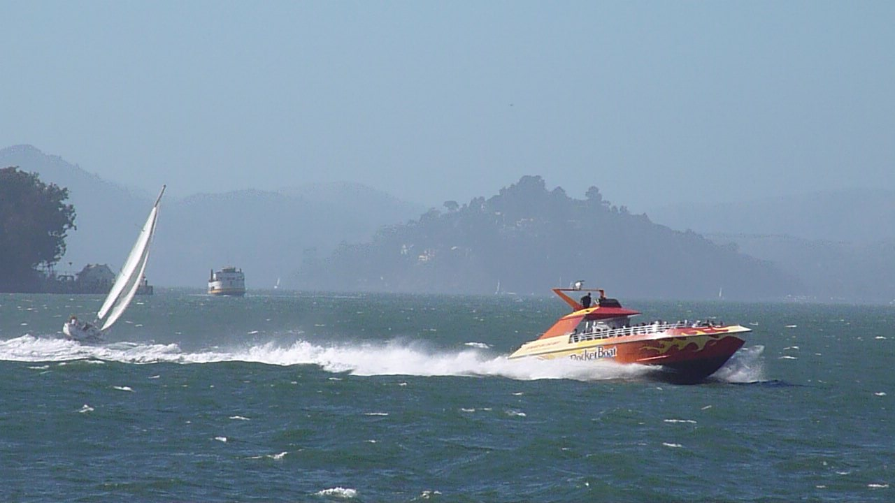 A RocketBoat speeding past a sailboat on the San Francisco Bay.